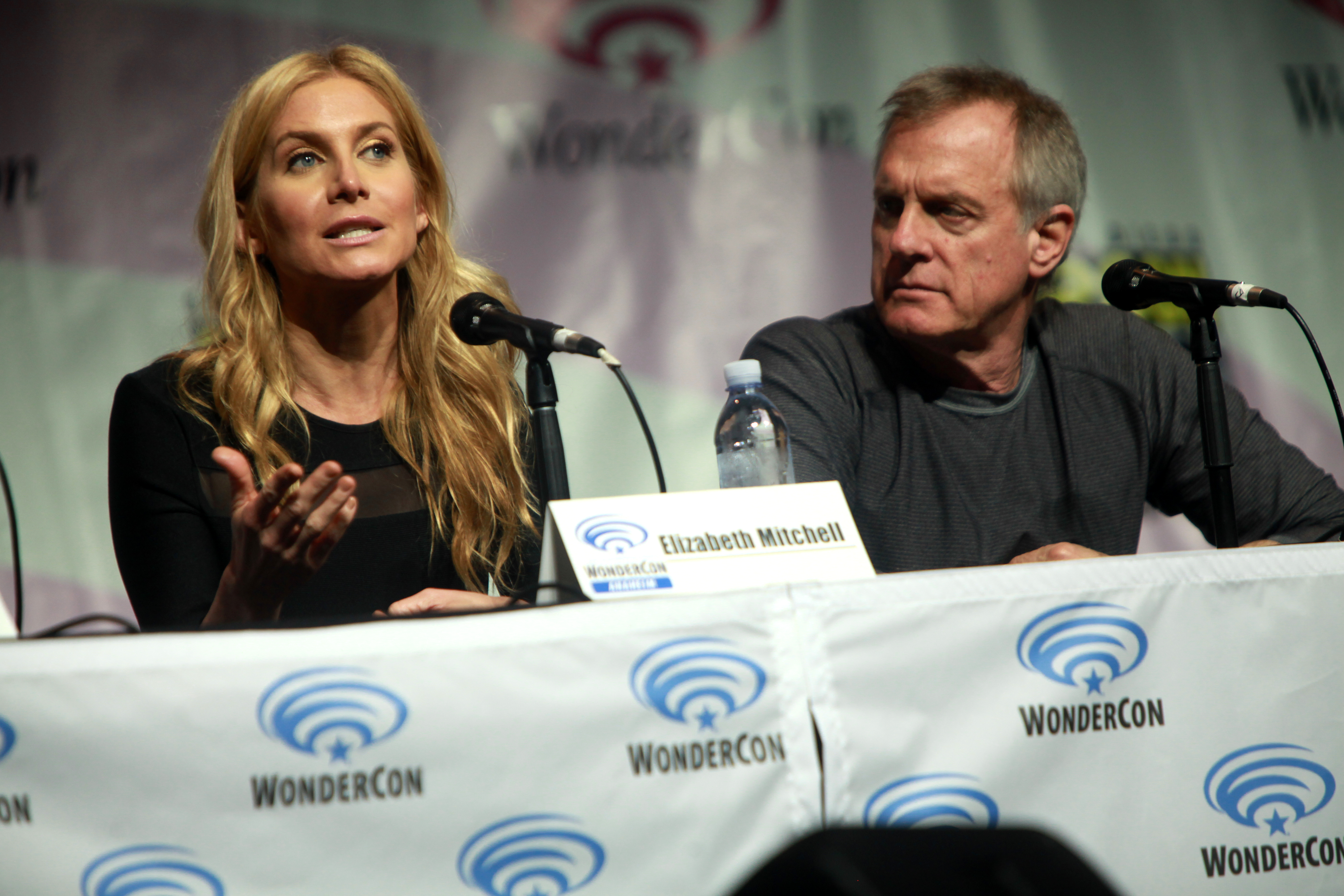 Elizabeth Mitchell and Stephen Collins speaking at the 2014 WonderCon, for "Revolution", at the Anaheim Convention Center in Anaheim, California.